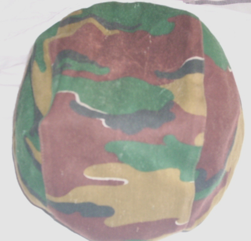 Belgian camouflage cover in jigsaw pattern (ABL, 2nd version)